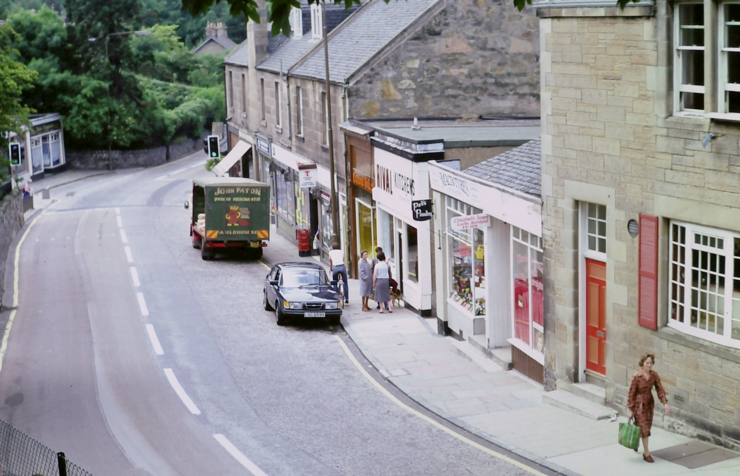 Bridge Street, Colinton (c.1980)